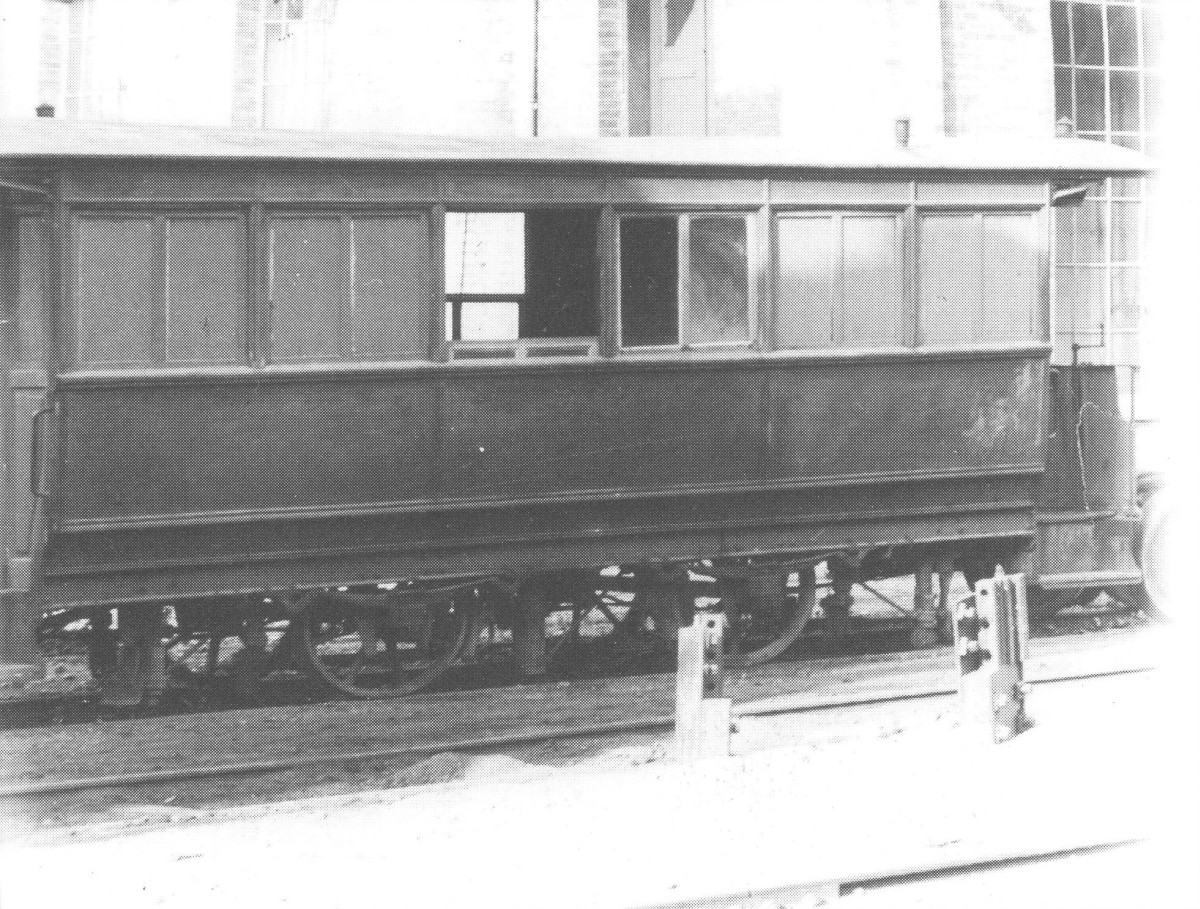 Horse tram trailer with unknown number, Brno, Moravia (now Czech Republic)